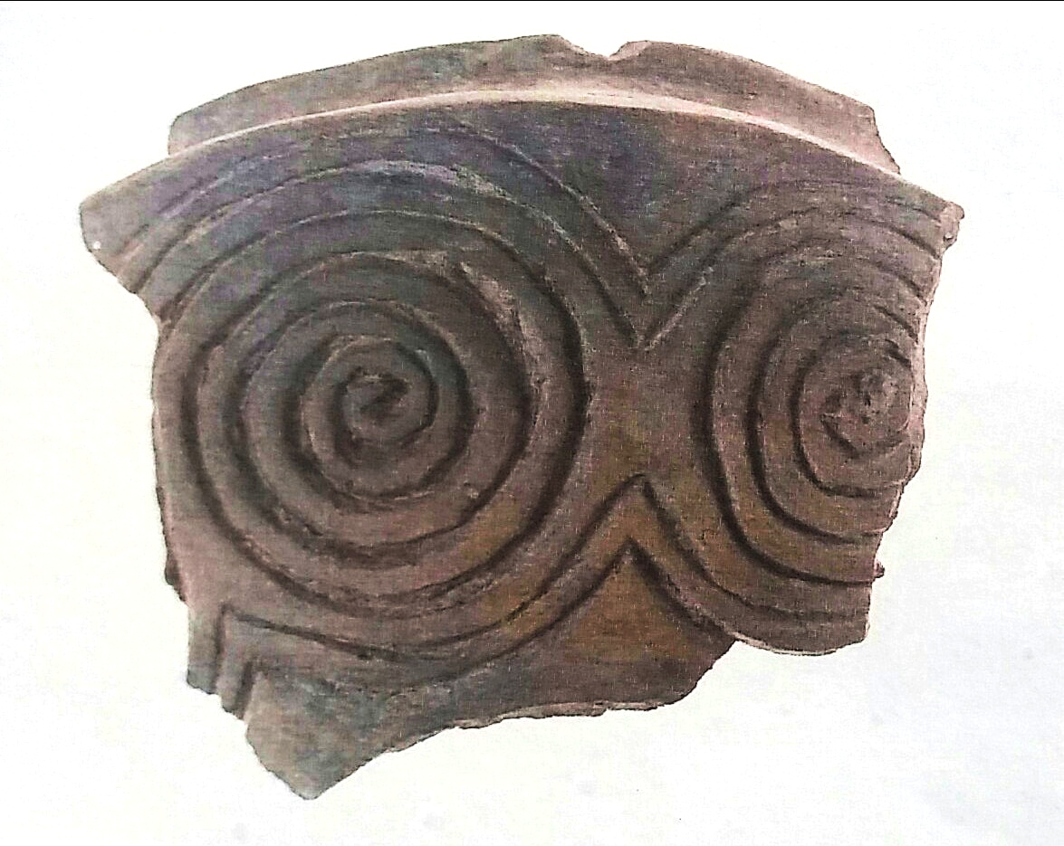 Decorated Neolithic pottery from La Starza, Italy (Archaeological Museum of Ariano Irpino)